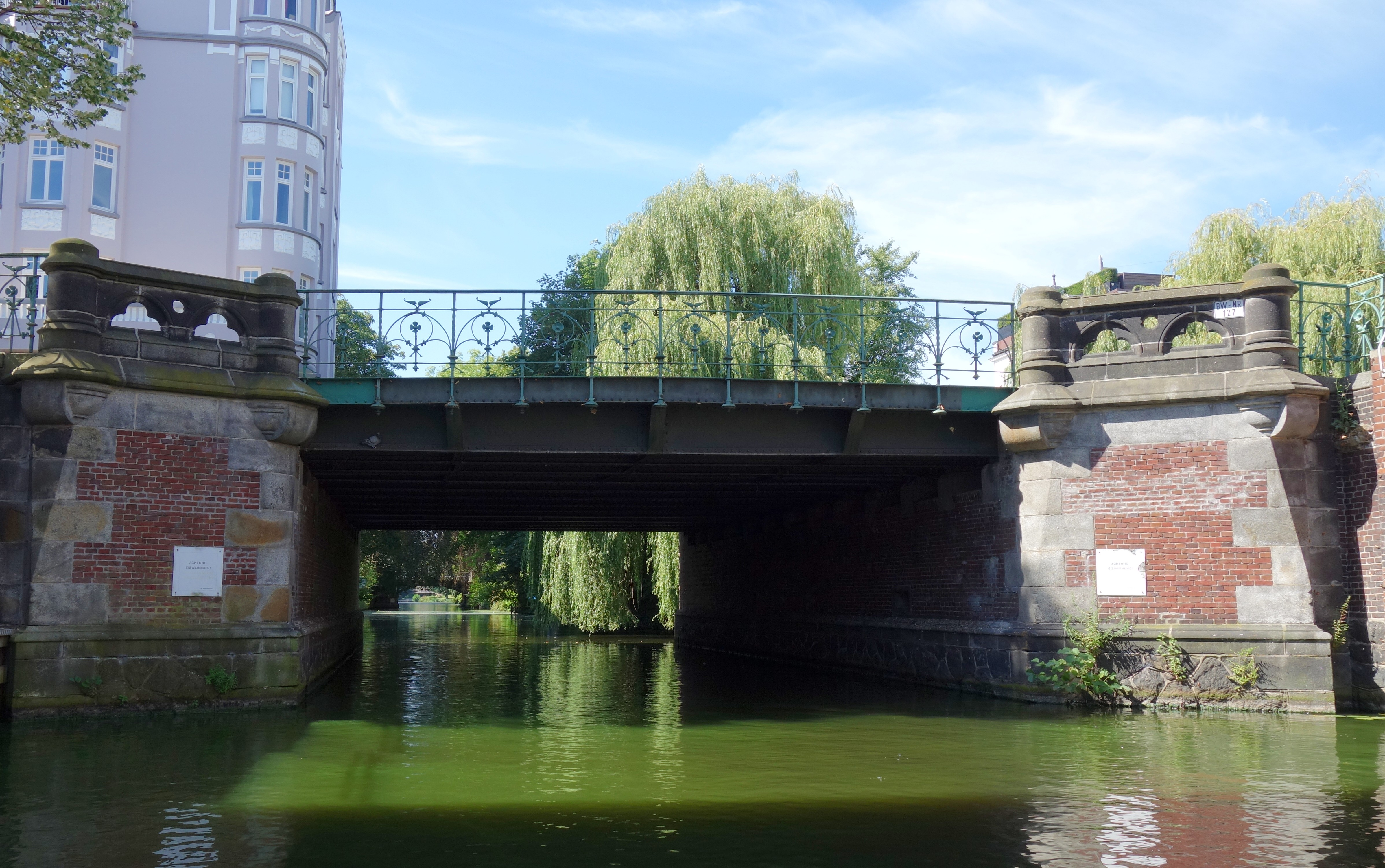 The Hofweg in Hamburg (Germany) crosses the Uhlenhorster Kanal ("Uhlenhorst channel") through this bridge.